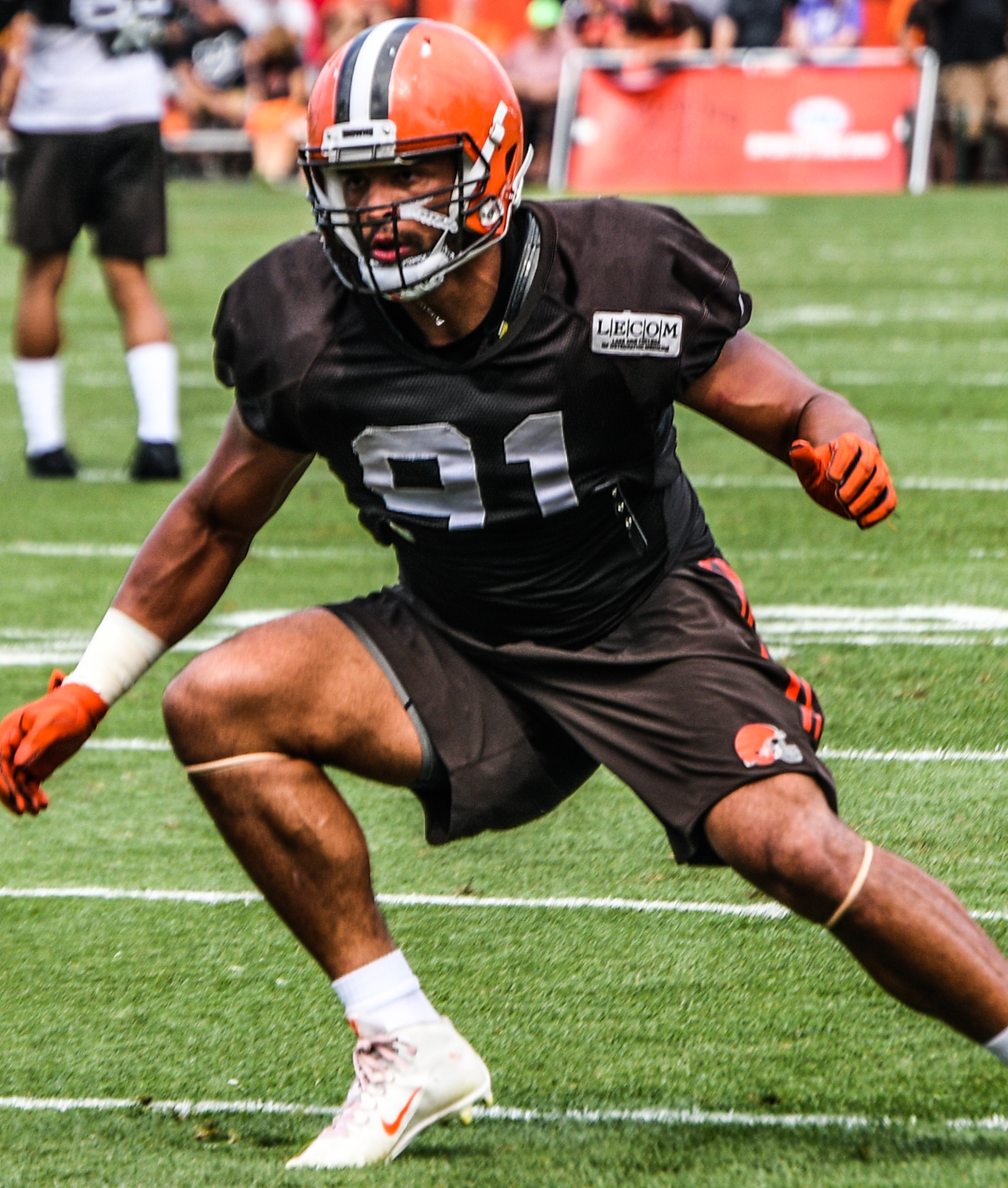 Holmes in 2017 training camp